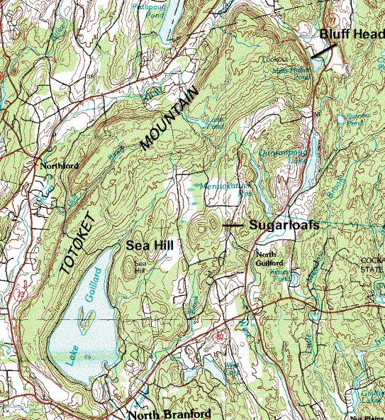 from USGS Guilford 1:25000 scale topographic map. (showing Totoket Mountain)